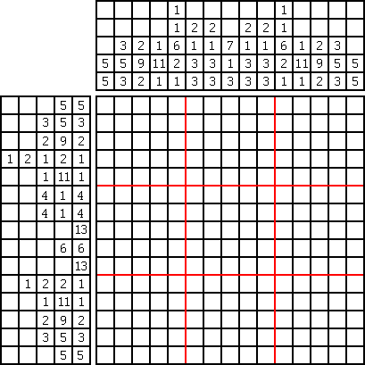 an example of Paint by numbers. the solution is Image:Paint by Number solution.png